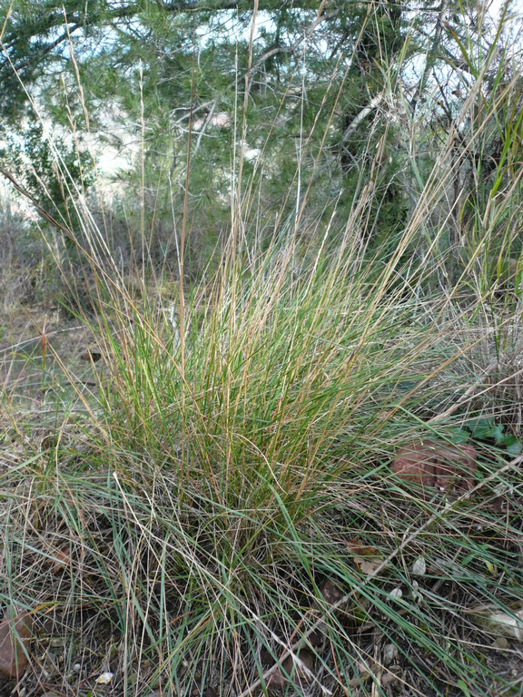 Brachypodium phoenicoides in winter. Serra de les Torretes, Martorell, Baix Llobregat, Catalonia. February 19th 2007.